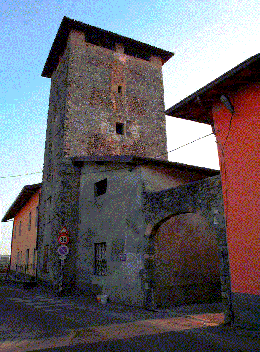 Tower of Terno d'Isola Bergamo Italy